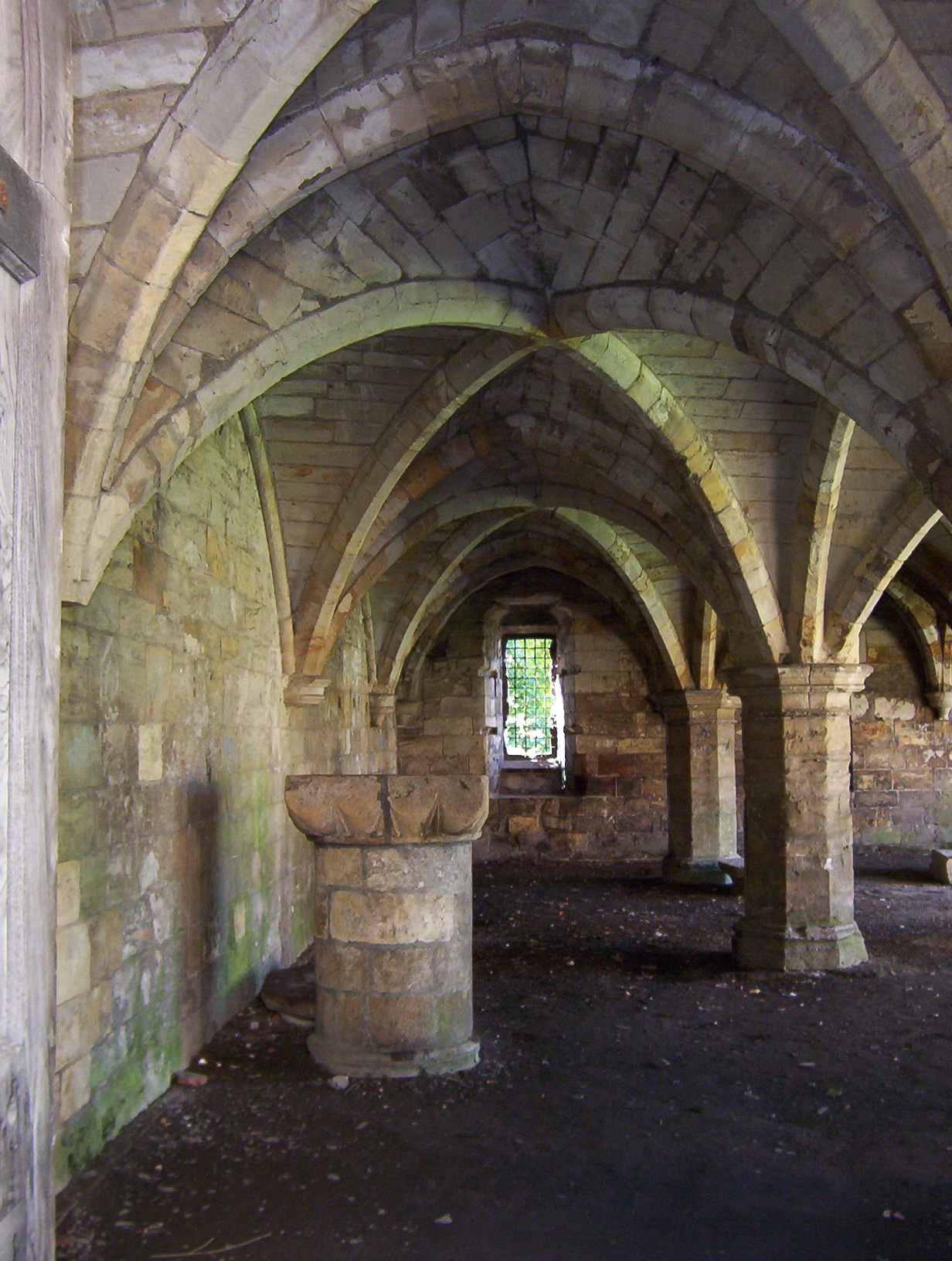 St. Leonards Hospital Undercroft in museum gardens York, the remains of the largest medieval hospital in England, showing the rib vaulted ceiling.